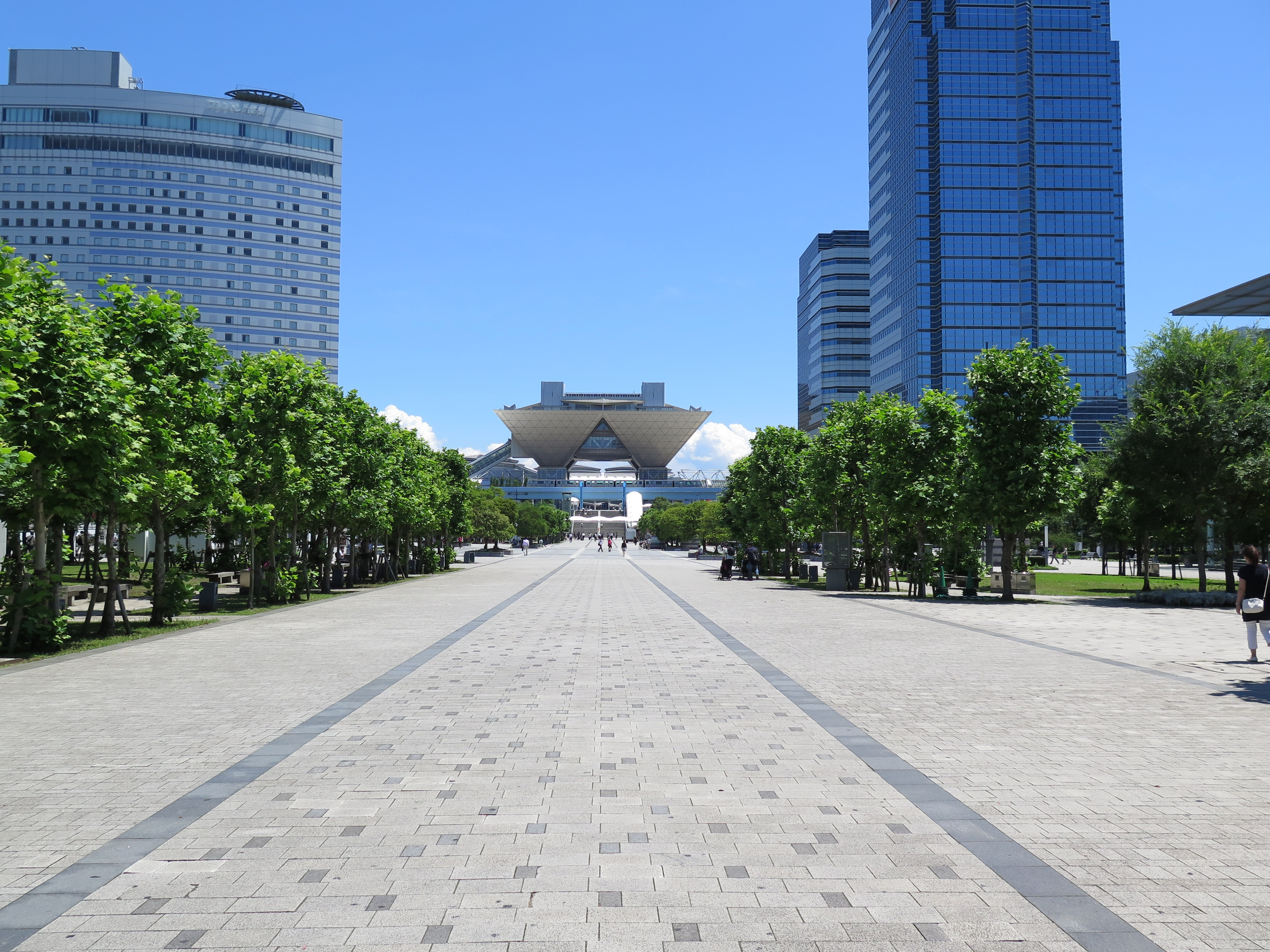 Ariake and the approach to the Tokyo Big Sight convention center.